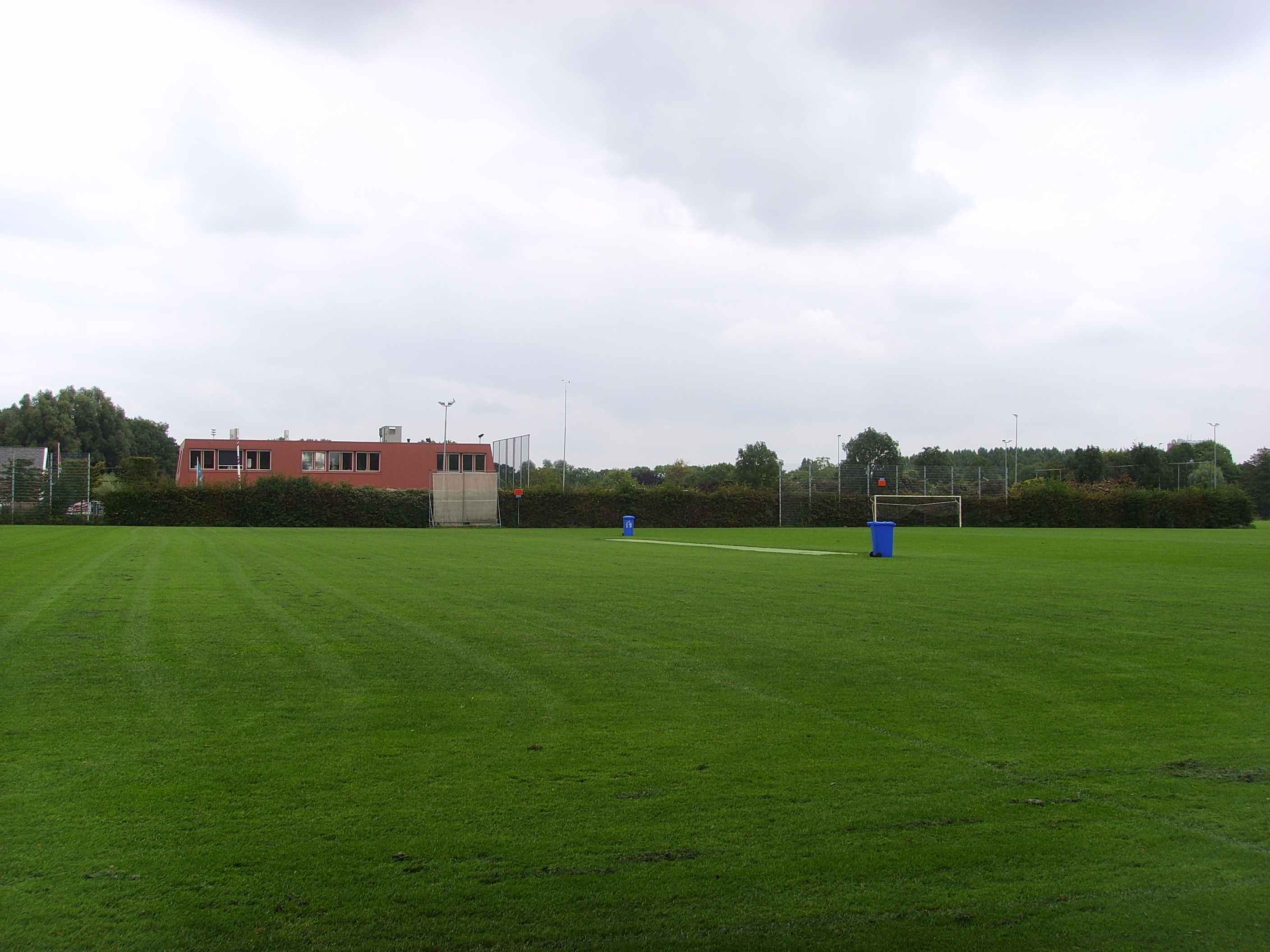 Kampong football club fields